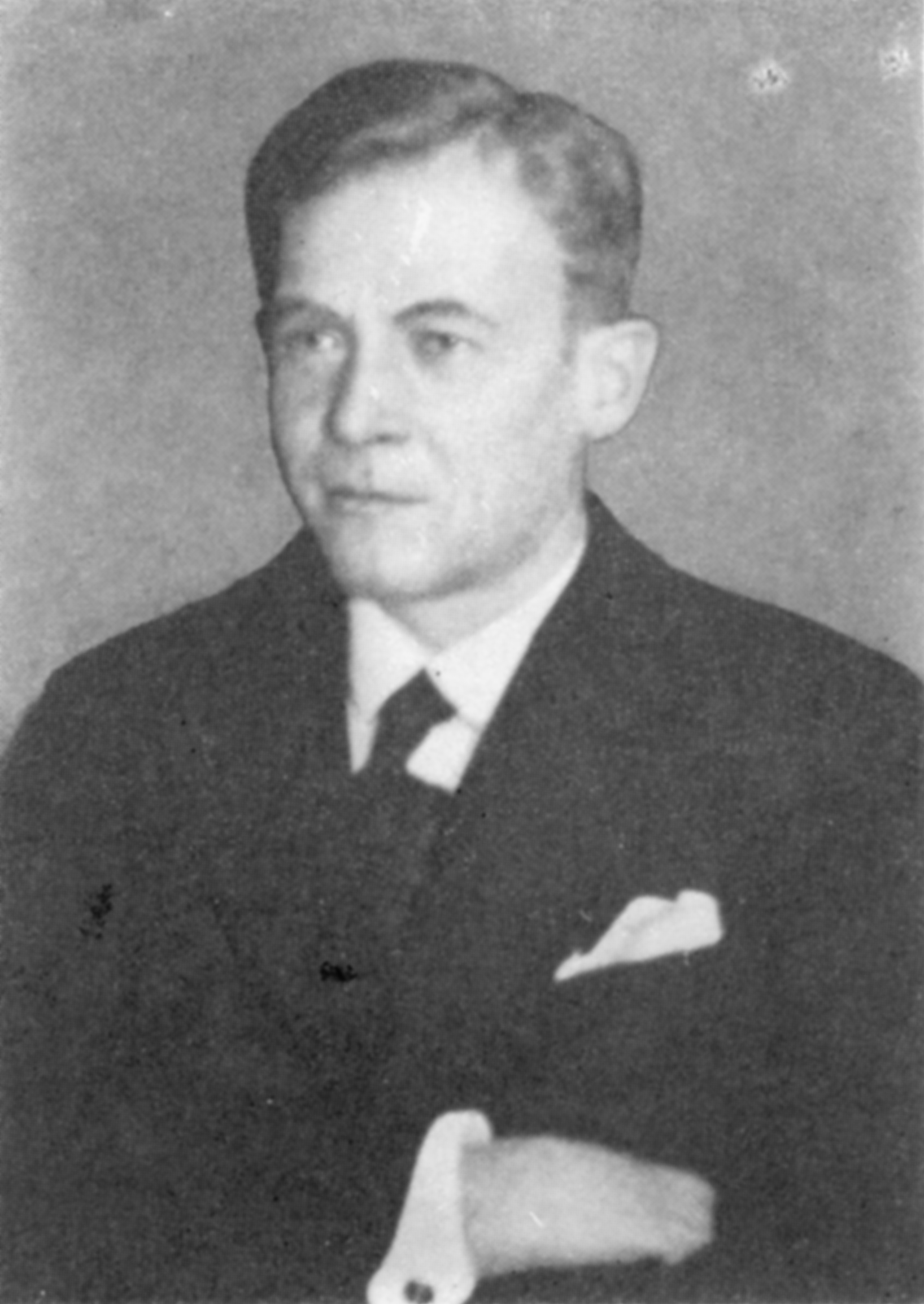 Wiktor Nechay de Felseis (1895–1940), Polish geologist and geographer, pedagogue, lieutenant of the Polish Army infantry reserve, victim of the Katyn massacre.